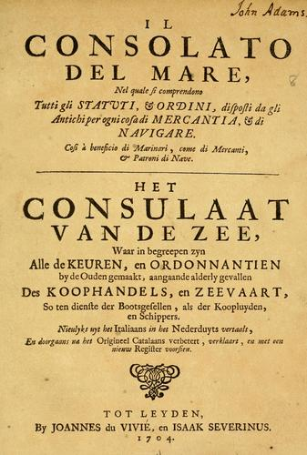 Il consolato del mare